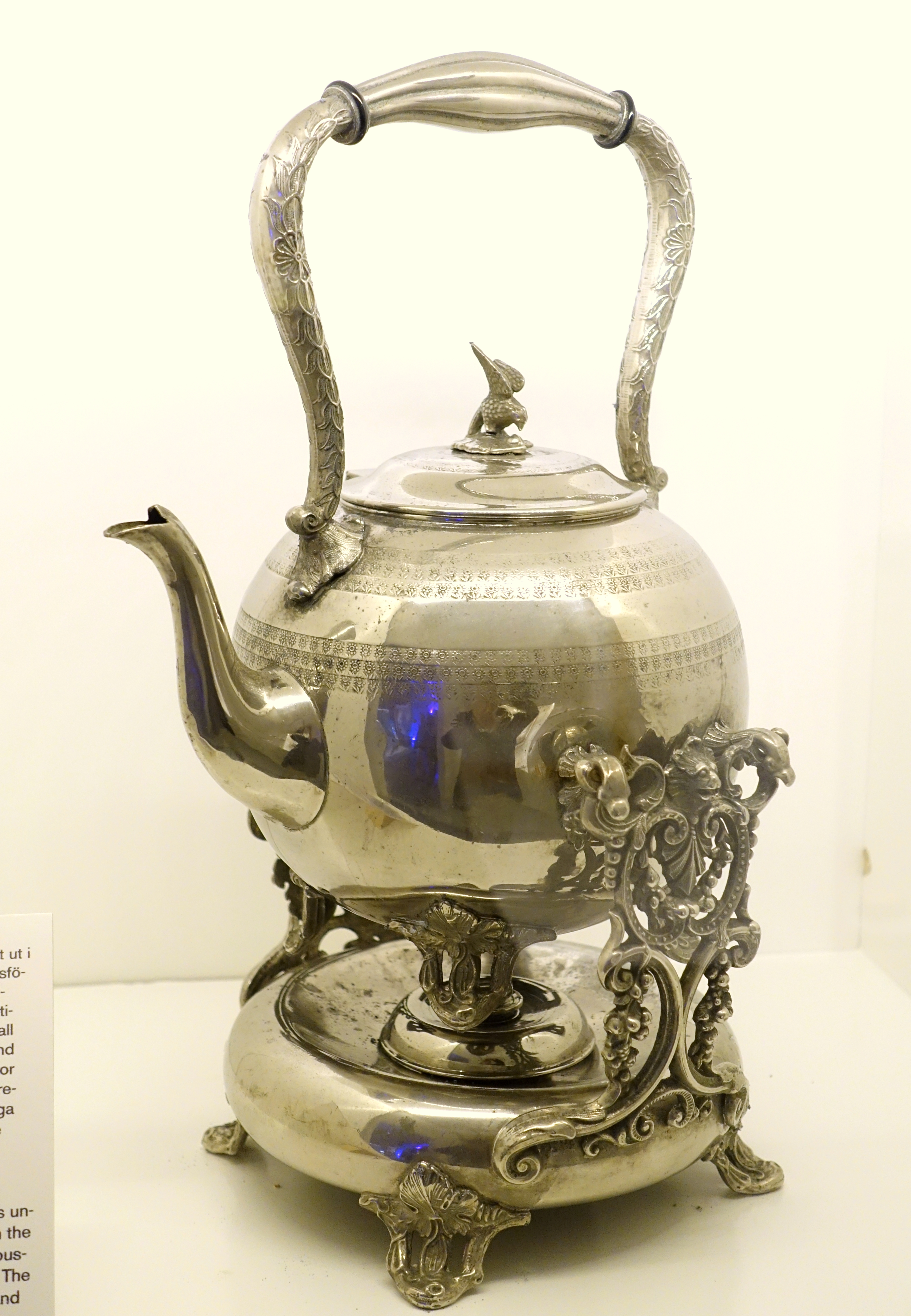 Exhibit in the Tekniska museet, Stockholm, Sweden. This work is old enough so that it is in the public domain.